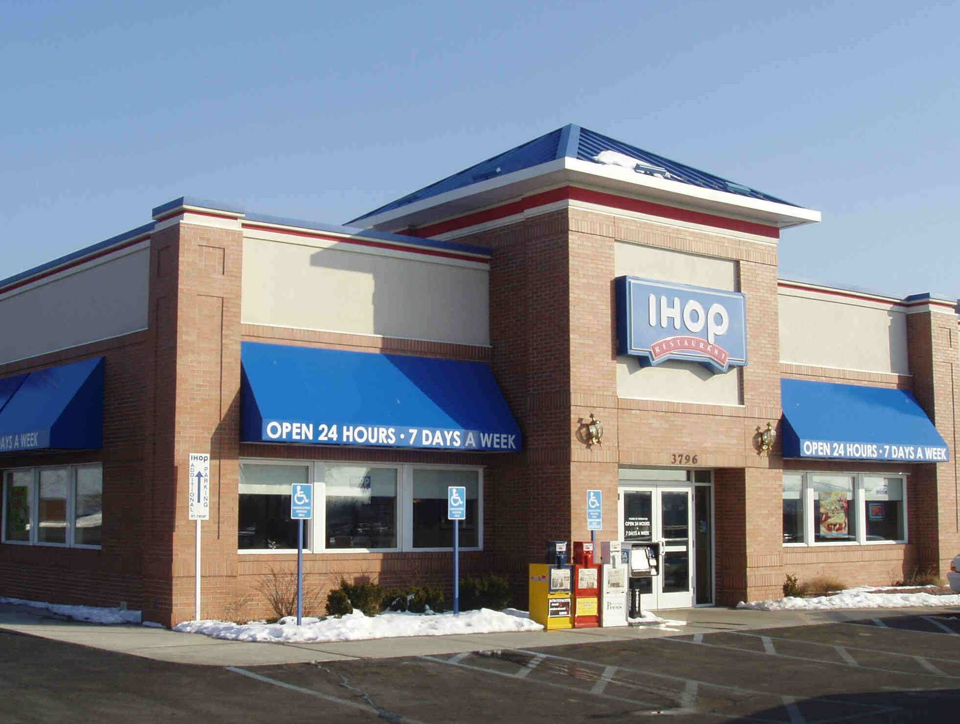 A self-taken photo of the local IHOP.